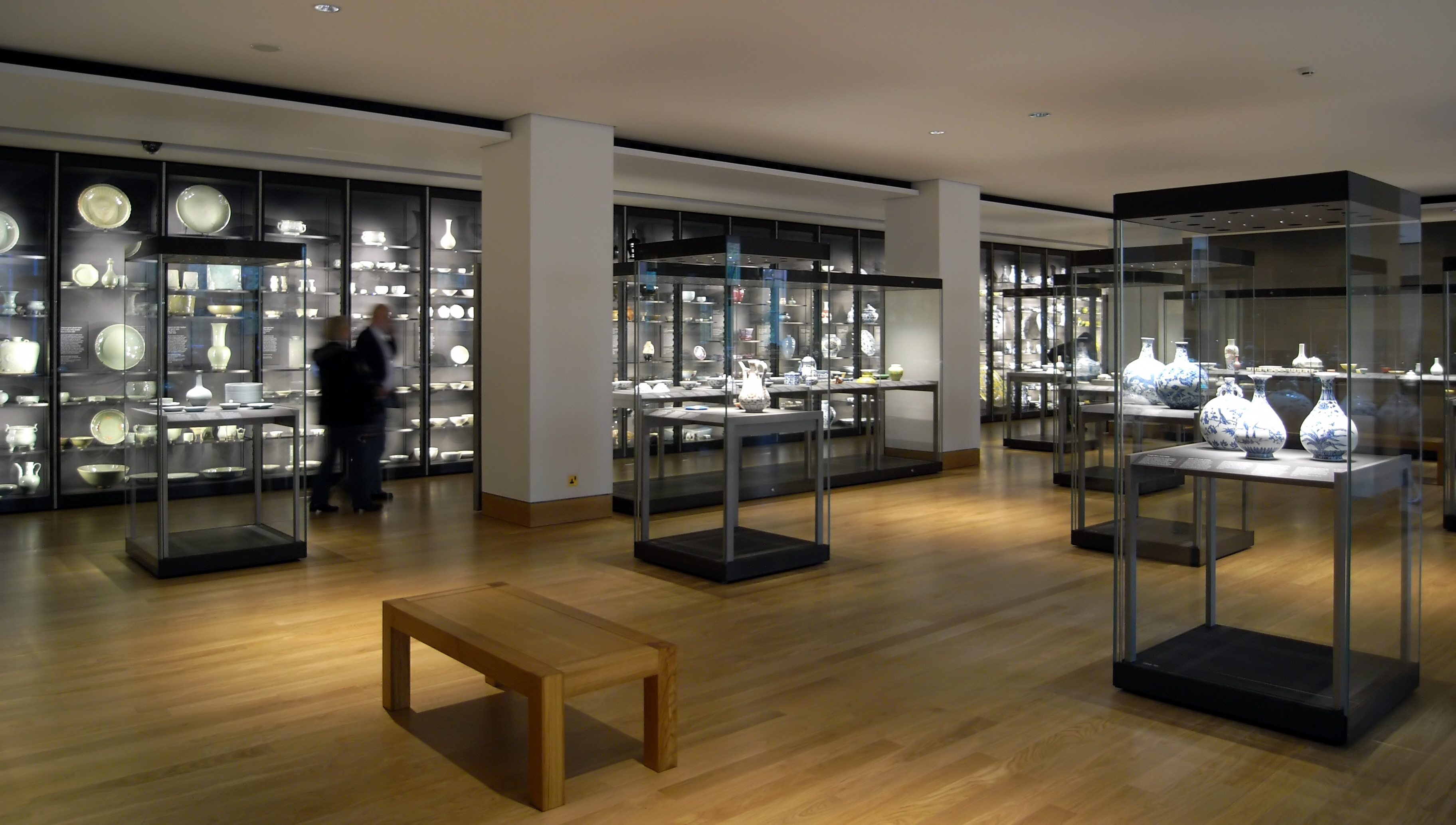 General view of Room 95, British Museum.